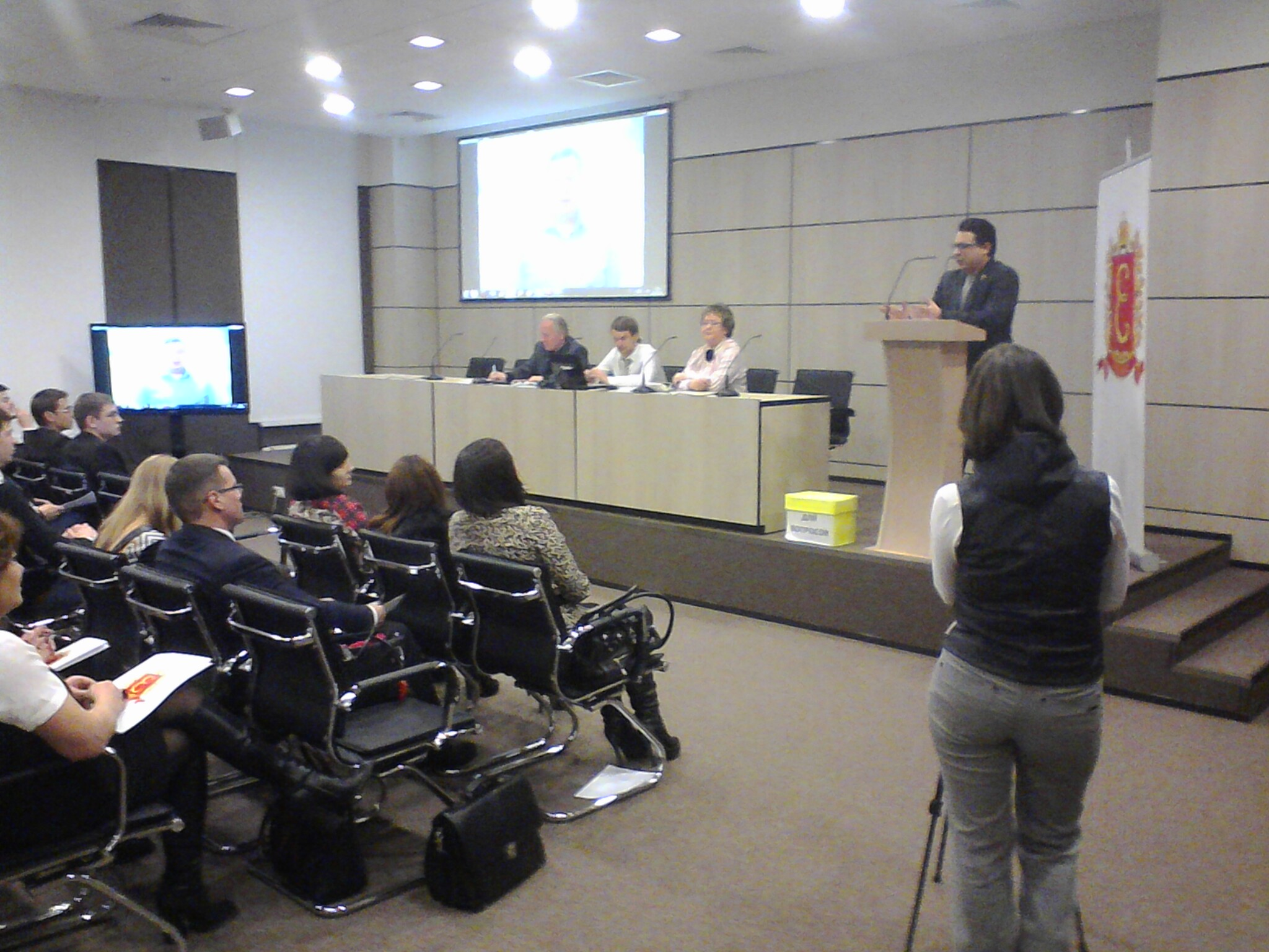 Kirill Formanchuk addresses Ekaterinburg Senate